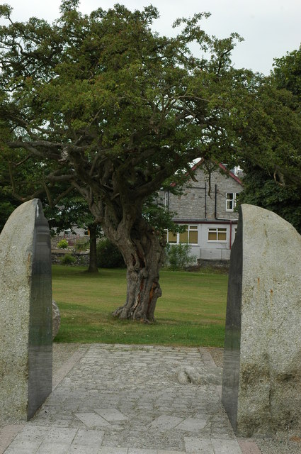 Intriguing sculpture in Colliston Park. I love the way the ancient hawthorn is framed by the glassy aspects of the granite. "The aim of this project was to construct a unique feature to commemorate Dalbeattie's heritage as a producer of the quality granite which has been used in major construction projects worldwide." Quoted from